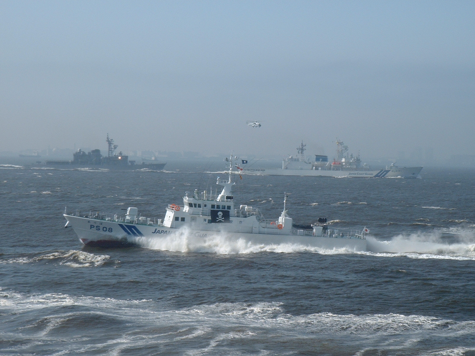 In a joint 2006 exercise, the cutter Kariba of the Japan Coast Guard plays the role of a suspicious vessel aiming to evade pursuit by the JCG large patrol vessel Shikishima and a Japan Maritime Self Defence Force Destroyer acting in concert.